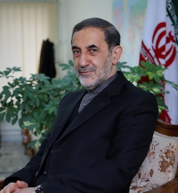 Ali Akbar Velayati the Advisor on international affairs of Ayatollah Ali Khamenei the Supreme Leader of Iran and Head of Center for Strategic Researches.